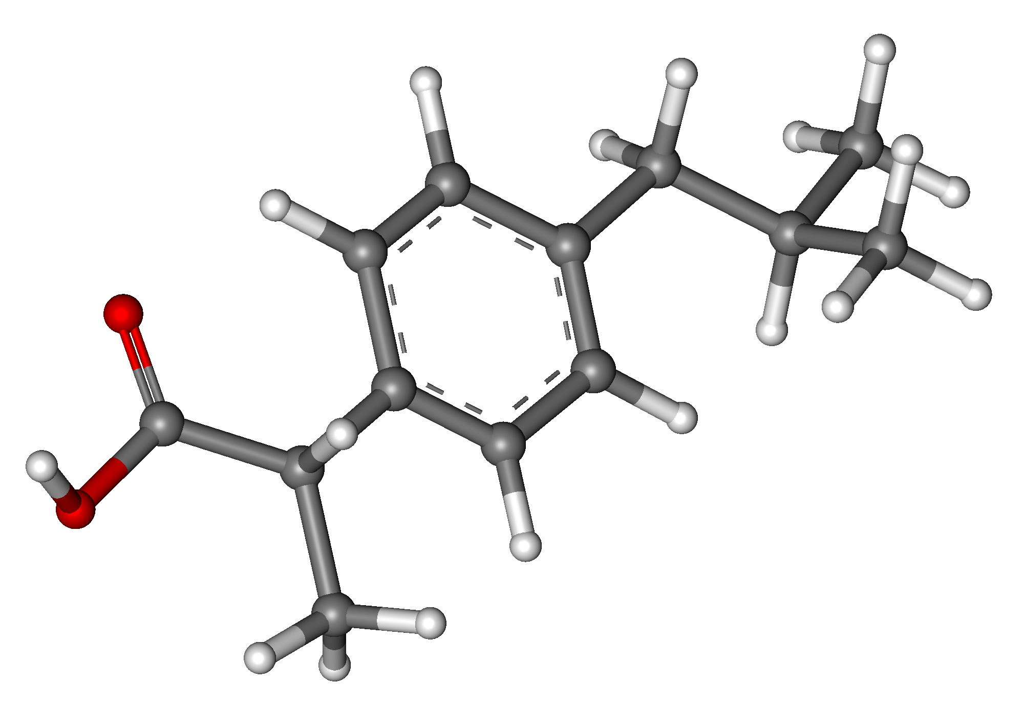 Ball-and-stick model of ibuprofen molecule. The structure is taken from ChemSpider. ID 3544